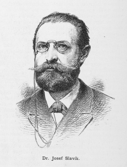 Portrait of Josef Slavík (1848-1916), Czech lawyer and politician